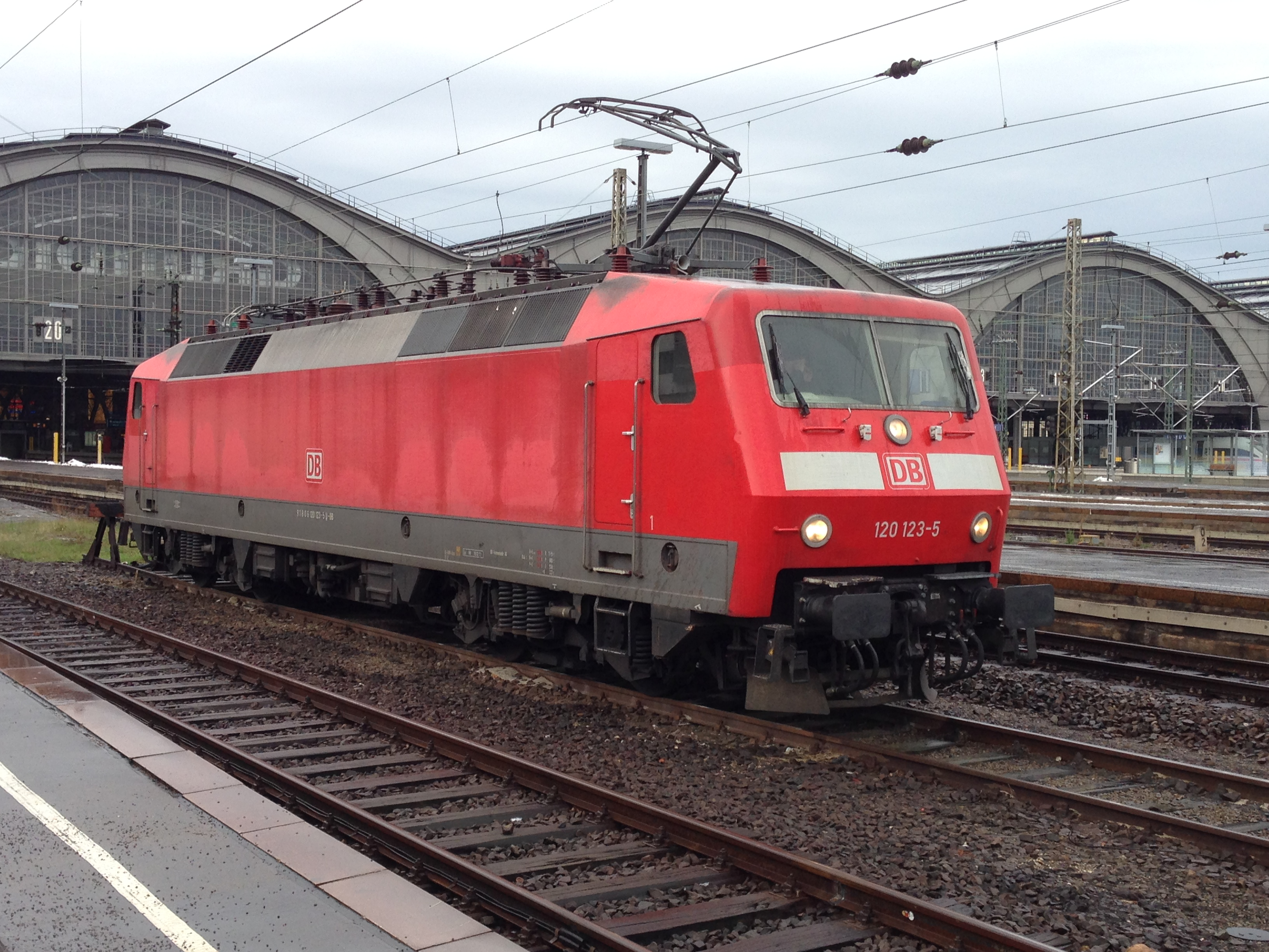 DBAG Class 120 No. 120 123 at Leipzig Hbf, 10th January 2016.